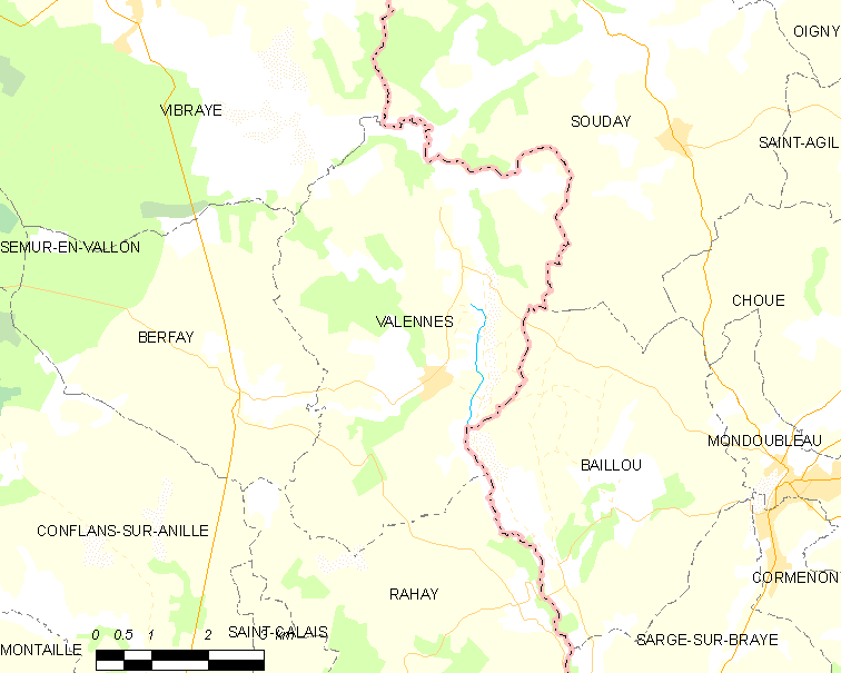 Map of French municipality